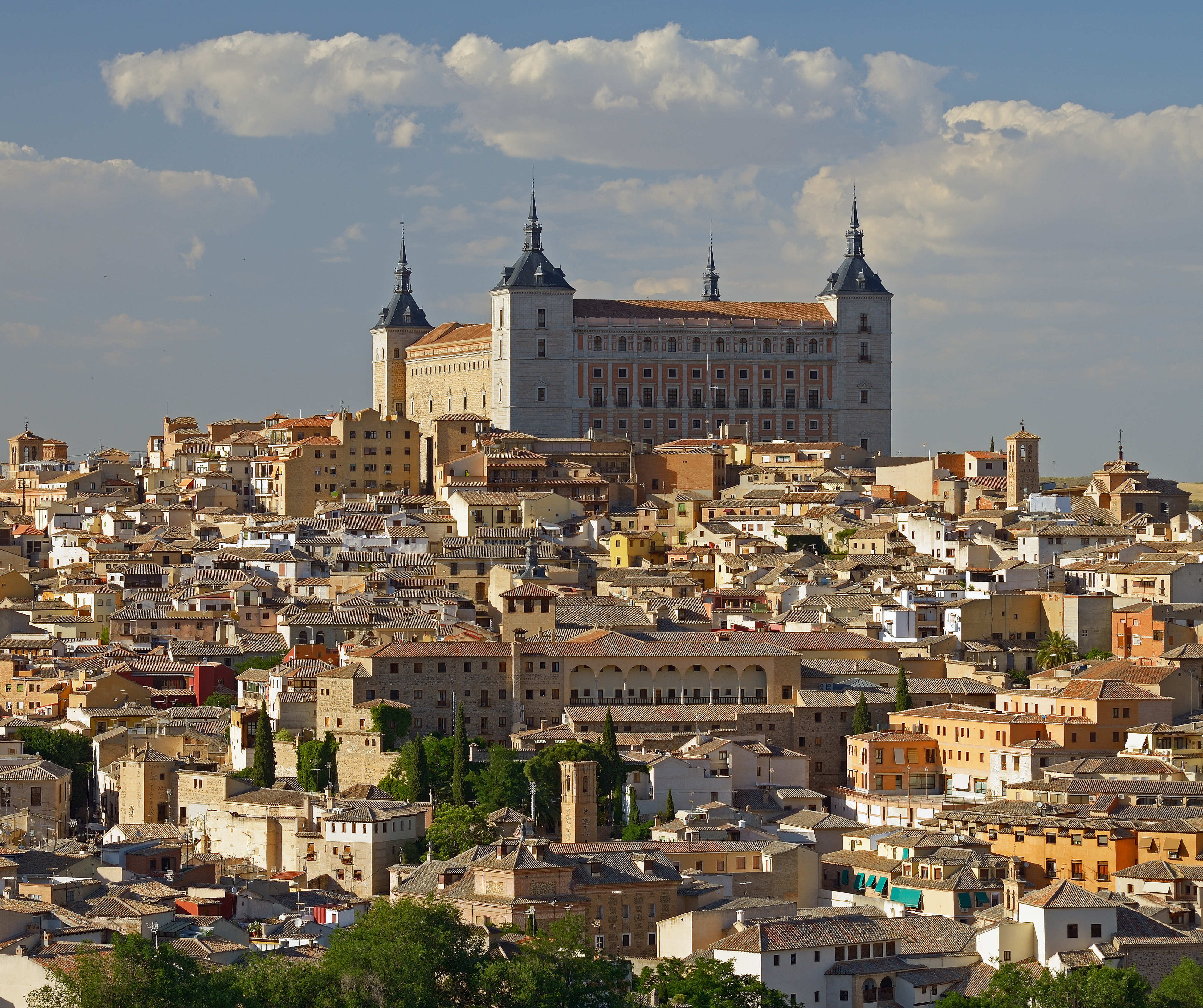 Alcázar of Toledo, Spain. View from the south. 2017